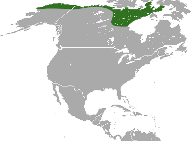 Barren Ground Shrew (Sorex ugyunak) range